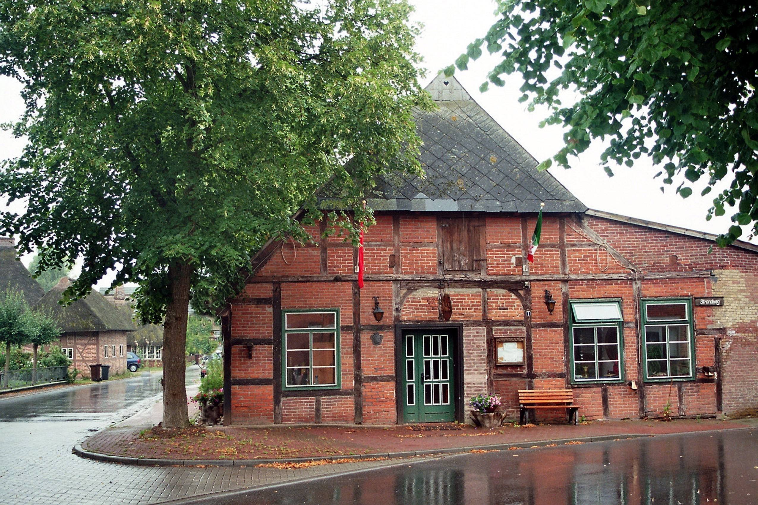 Stakendorf, house 1 Strandweg